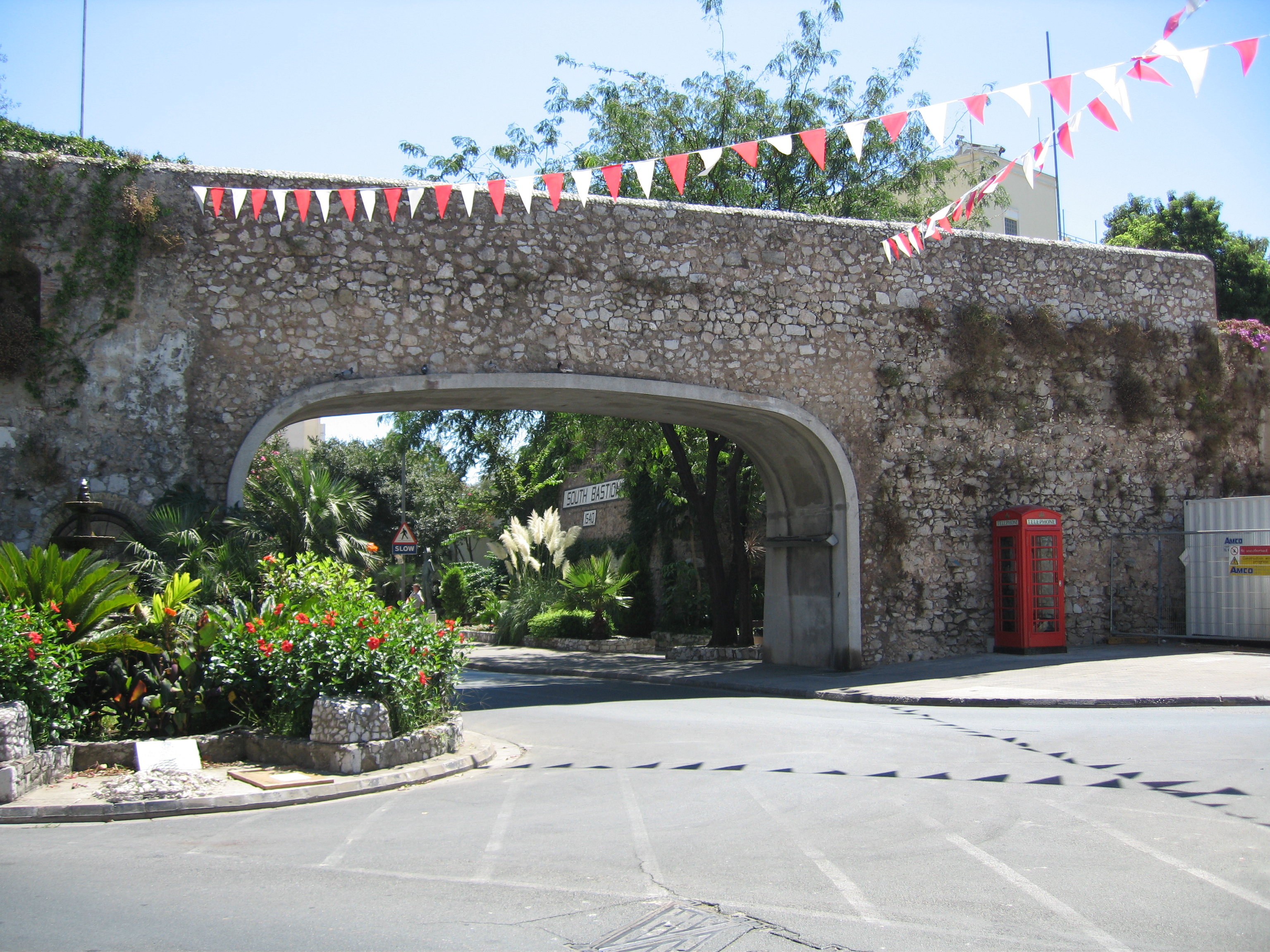 Referendum Gate at Southport Gates in Charles V Wall, Gibraltar. Named to commemorate Gibraltar's first sovereignty referendum.